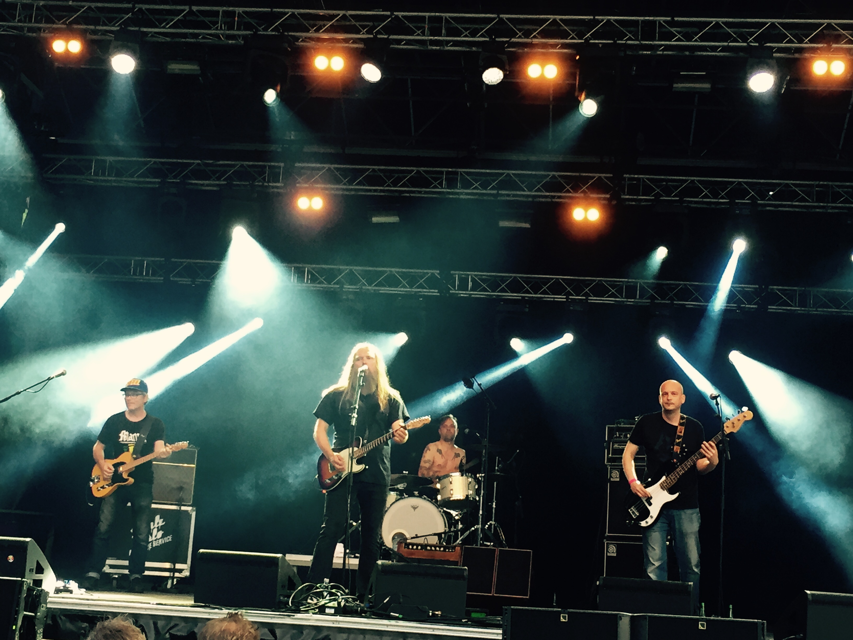 The Norwegian outlaw country, rock and roll band Senjahopen playing live at Under Festningen, Oslo, Norway 2016-08-05.